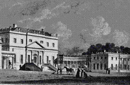 Russborough, Ireland. Engraving by J P Neale dated 1826.